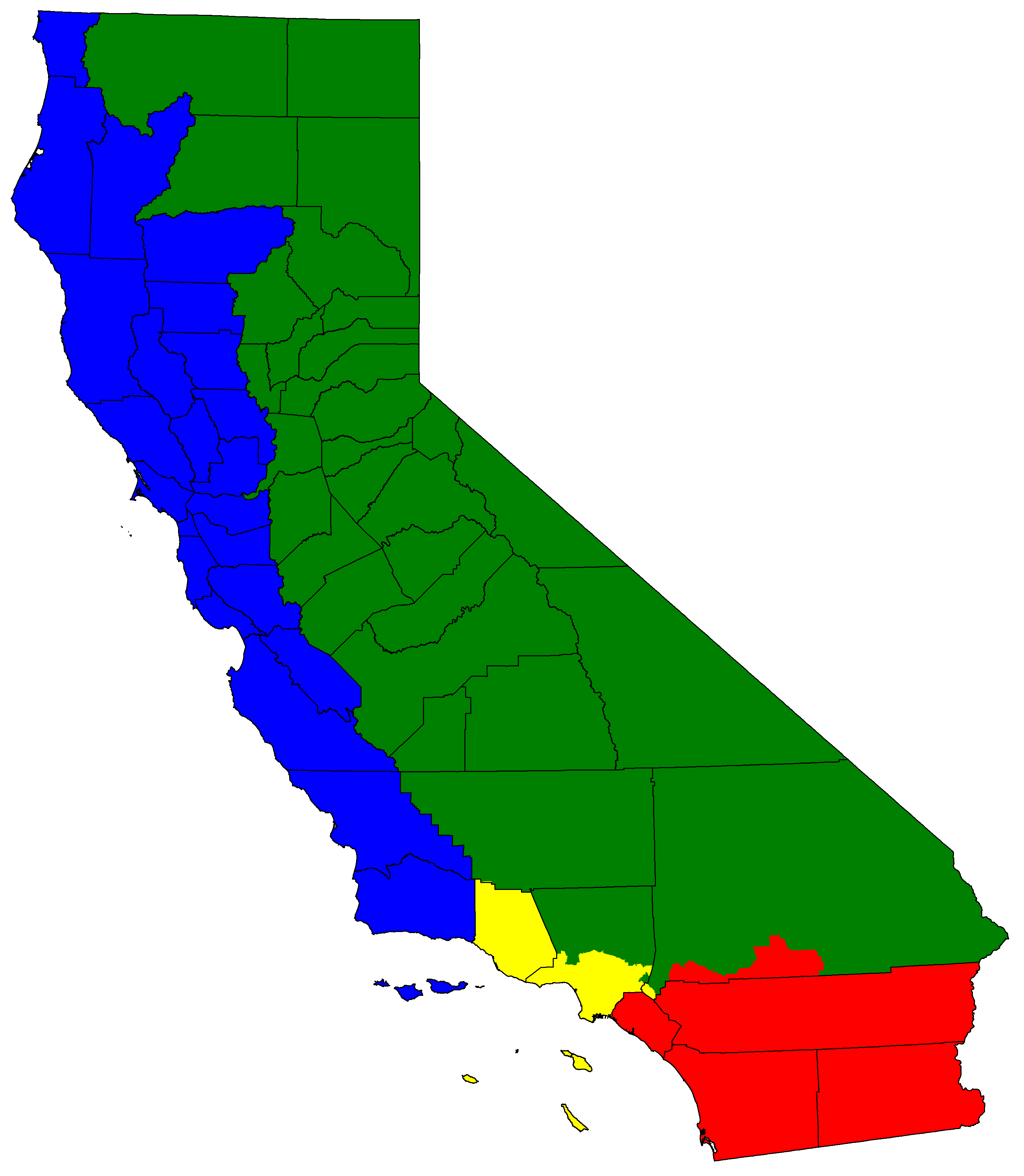 Board of Equalization Districts map as approved by the California Citizens Redistricting Committee in 2011. Districts numbered 1, 2, 3, 4 - blue, green, red, yellow, respectively. Black outlines are county lines.